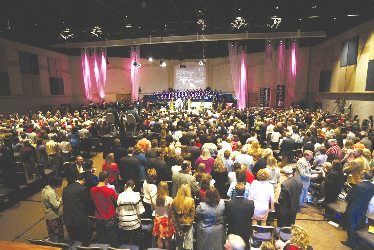 FFC Main Sancuary